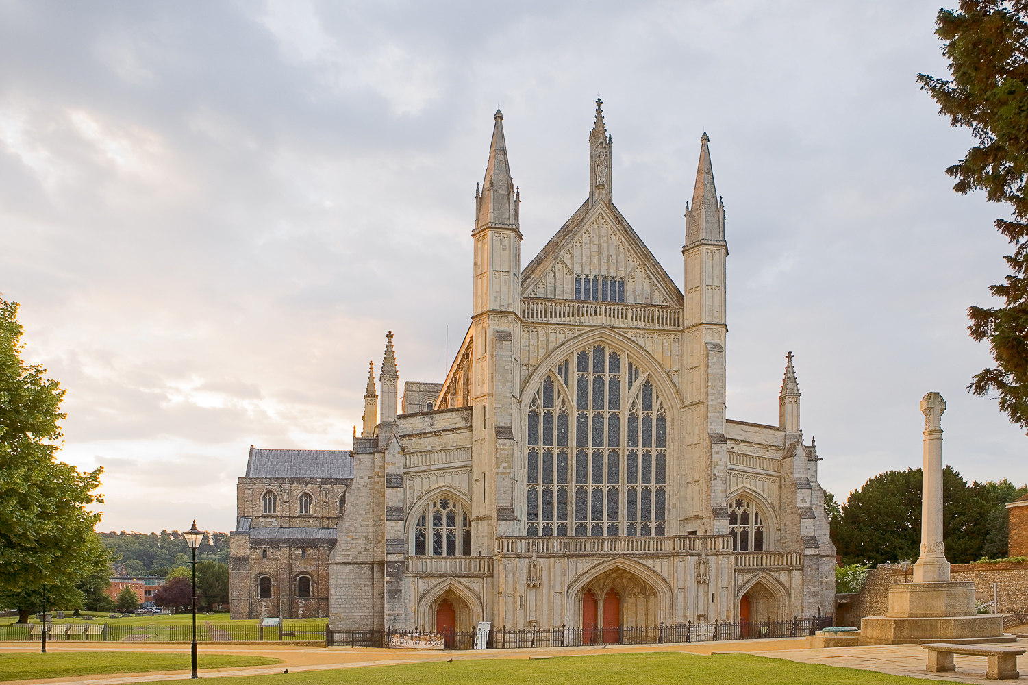 Winchester Cathedral west facade dawn